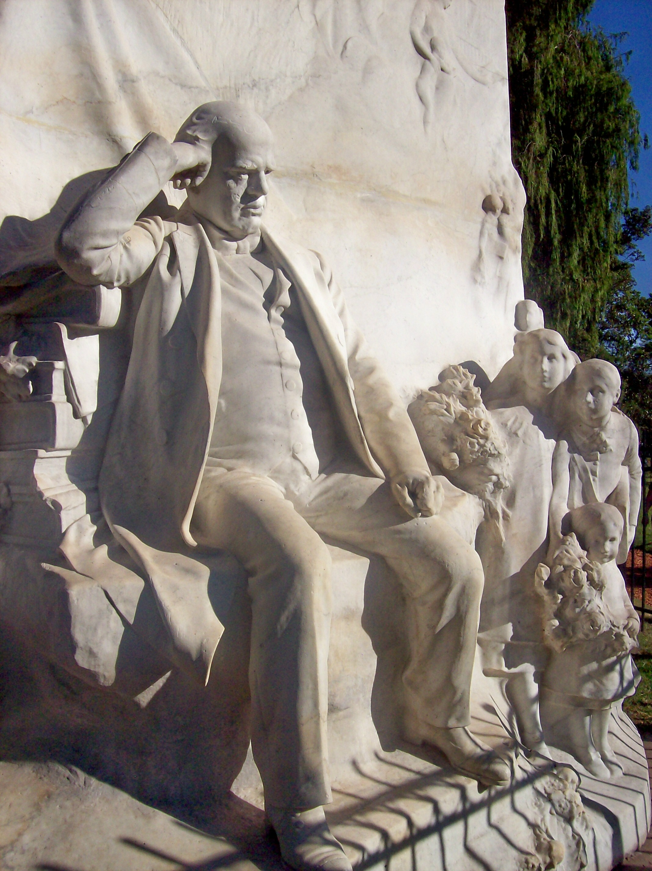 High Relief "Ofrenda Floral a Sarmiento"